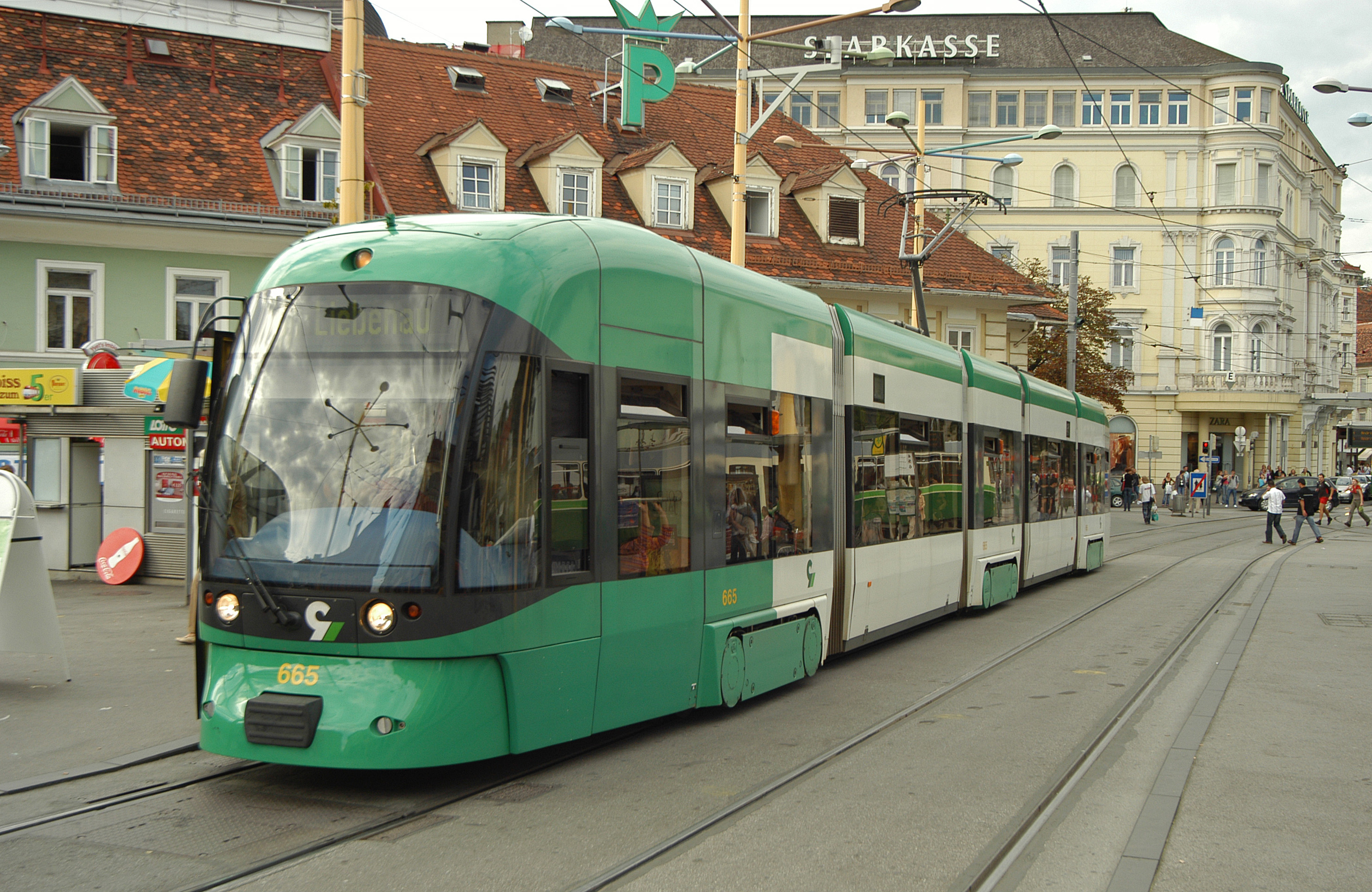 Please report references to kulacgmx.at.